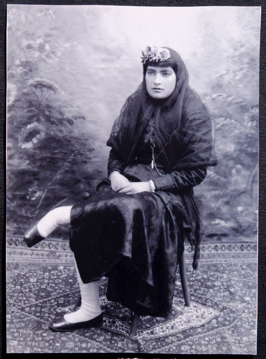 Maryam Amid Semnani Mozayyan As-Saltaneh one of the first female newspaper reporters in Iran